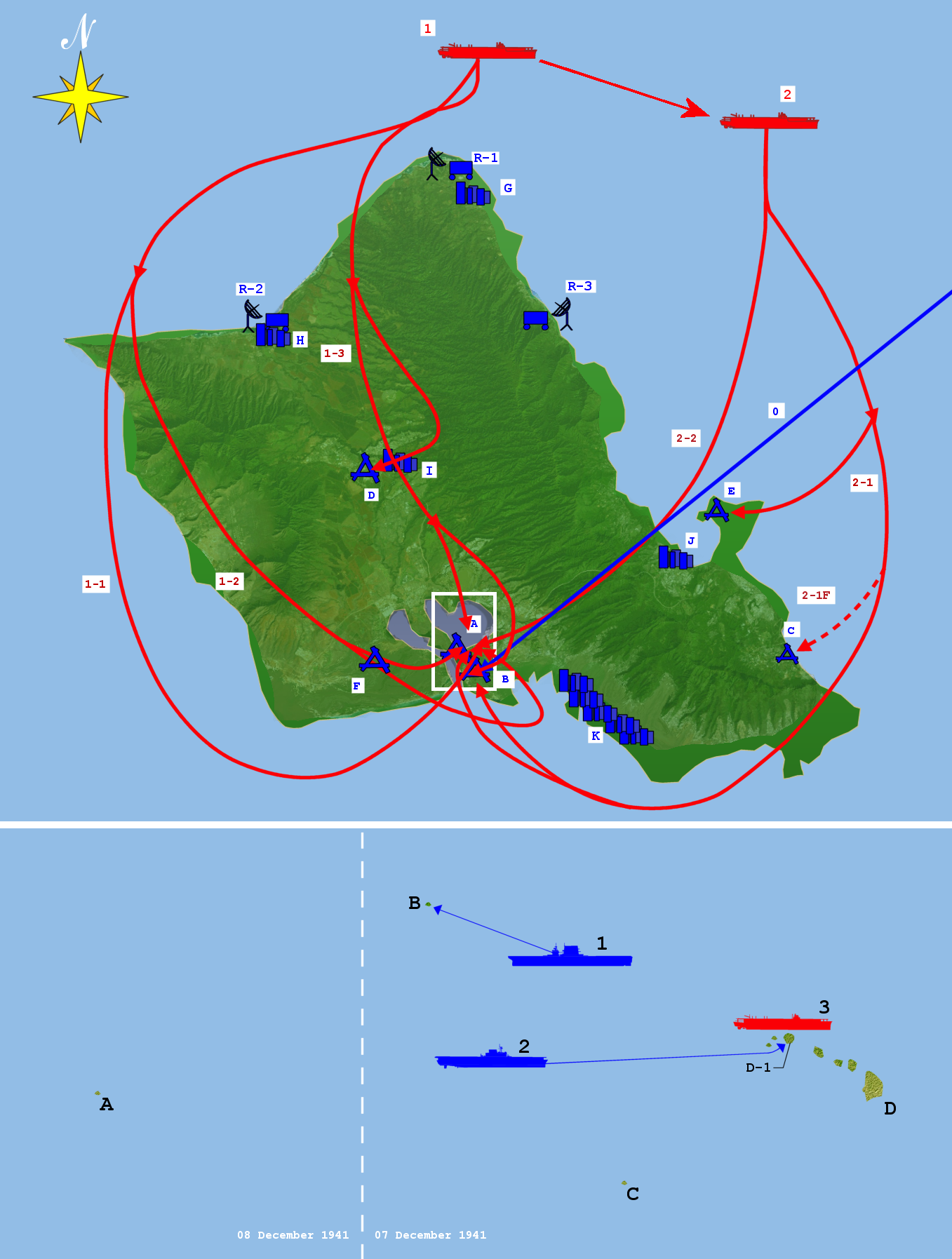 Top: A. Ford Island NAS B. Hickam Field C. Bellows Field D. Wheeler Field E. Kaneohe NAS F. Ewa MCAS R-1. Opana Radar Station R-2. Kawailoa RS R-3. Kaaawa RS G. Haleiwa H. Kahuku I. Wahiawa J. Kaneohe K. Honolulu 0. B-17s from mainland 1. First strike group 1-1. Level bombers 1-2. Torpedo bombers 1-3. Dive bombers 2. Second strike group 2-1. Level bombers 2-1F. Fighters 2-2. Dive bombers Bottom: A. Wake Island B. Midway Islands C. Johnston Island D. Hawaii D-1. Oahu 1. USS Lexington 2. USS Enterprise 3. First Air Fleet